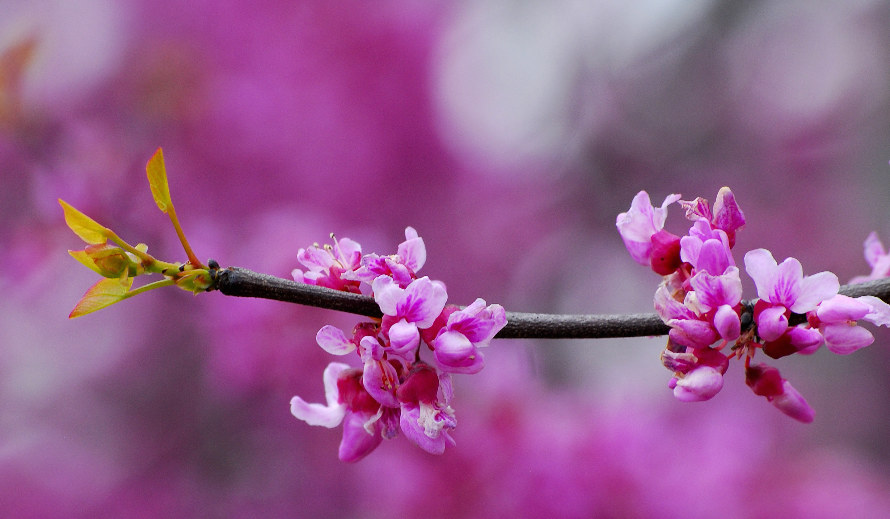 Close up of flowers of Redbud Tree(Cercis siliquastrum) blooming in spring.